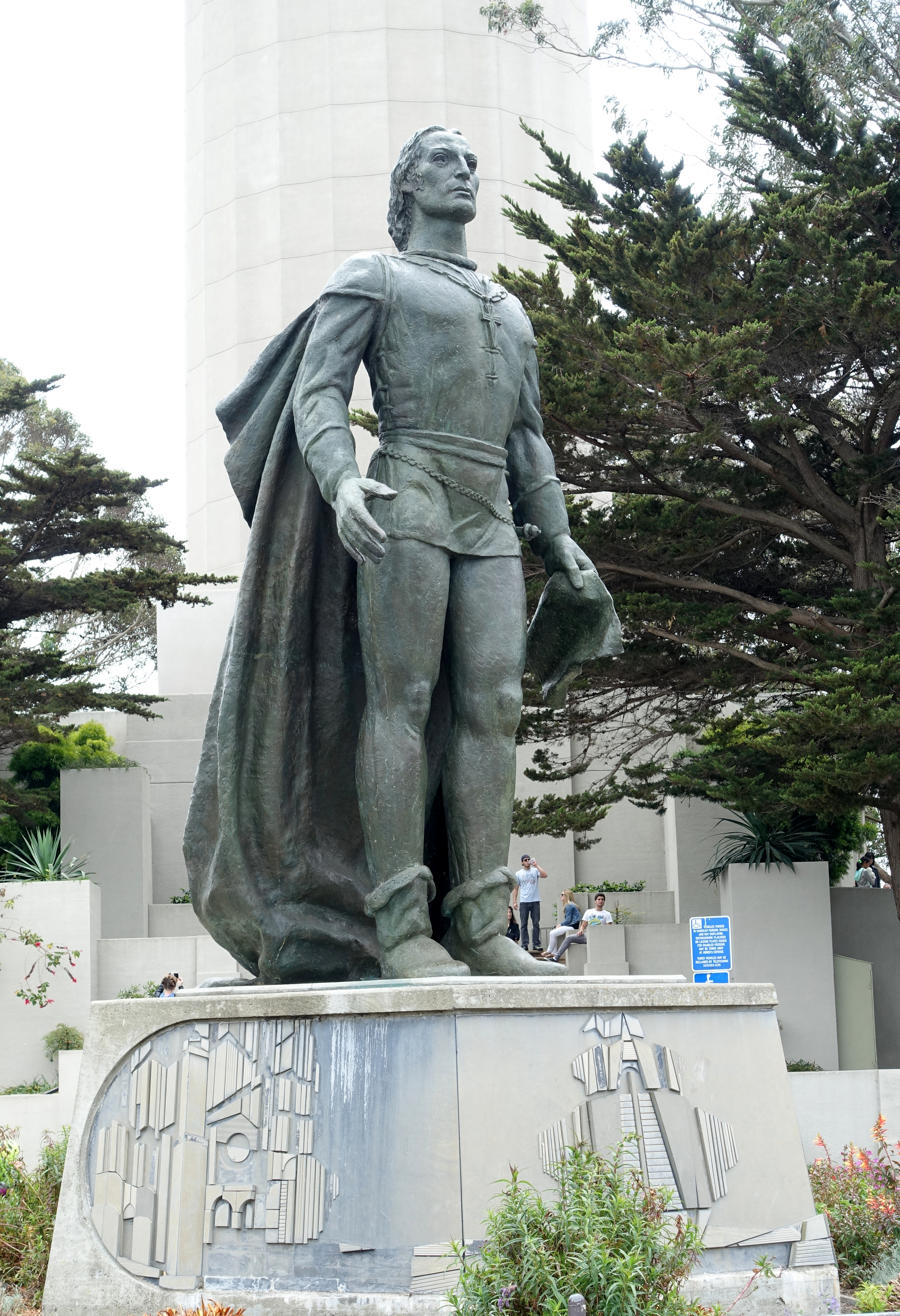 Christopher Columbus by Vittorio Di Colbertaldo (1902-1979) - Telegraph Hill, San Francisco, California, USA. Dedicated on October 12, 1957. This artwork is in the public domain because it was published in the United States between 1923 and 1963, with its copyright not renewed.